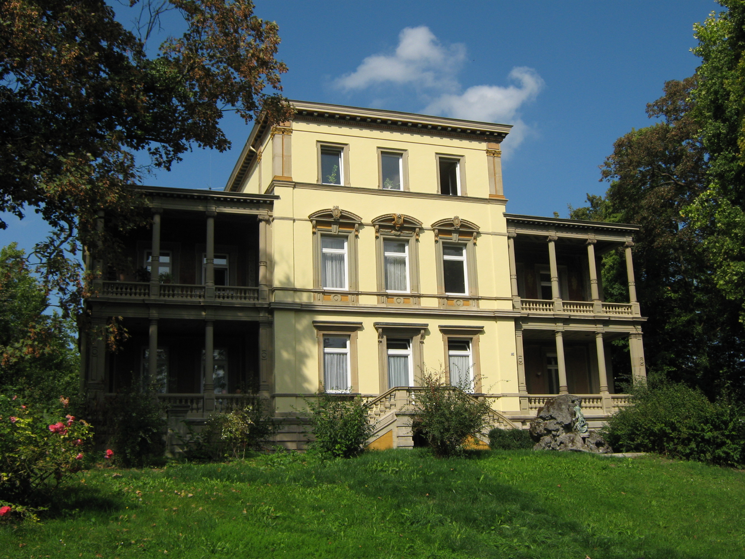 Der Kommerzienrat, Stadtrat und Papierfabrikant Ernst Louis Laiblin erbaute die Villa Laiblin 1872 in Pfullingen, Klosterstr. 82 im Stil der italienischen Spätrenaissance. Südansicht.